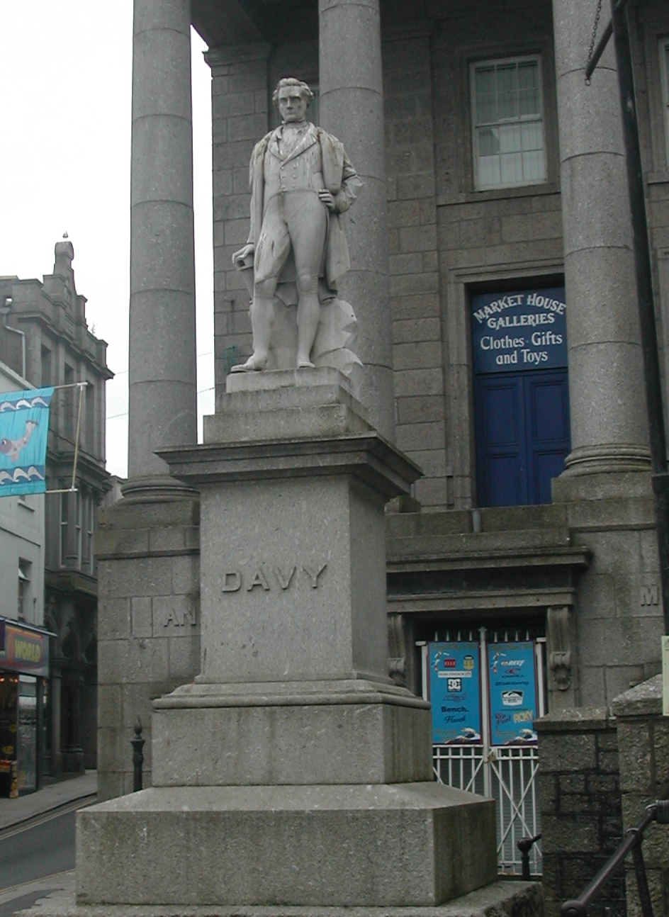 Statue of Sir Humphry Davy Market Jew Street, Penzance, Cornwall, United Kingdom June 2006 Author Chris Angove